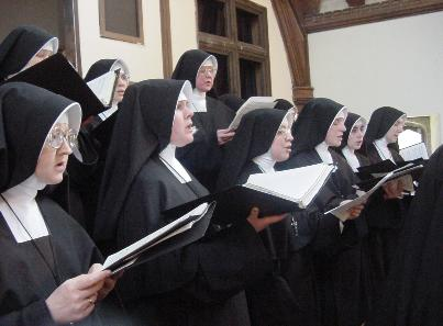 Copyright released.